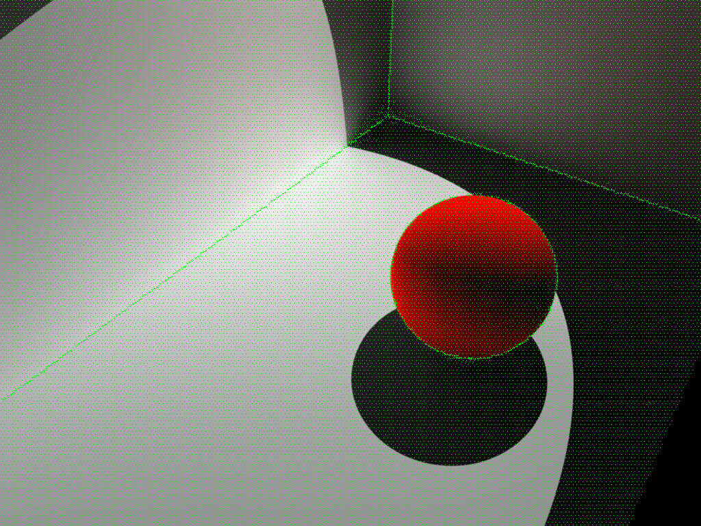 The green dots represent the final gathering points. Rendered with mental ray (raytracing, final gathing).